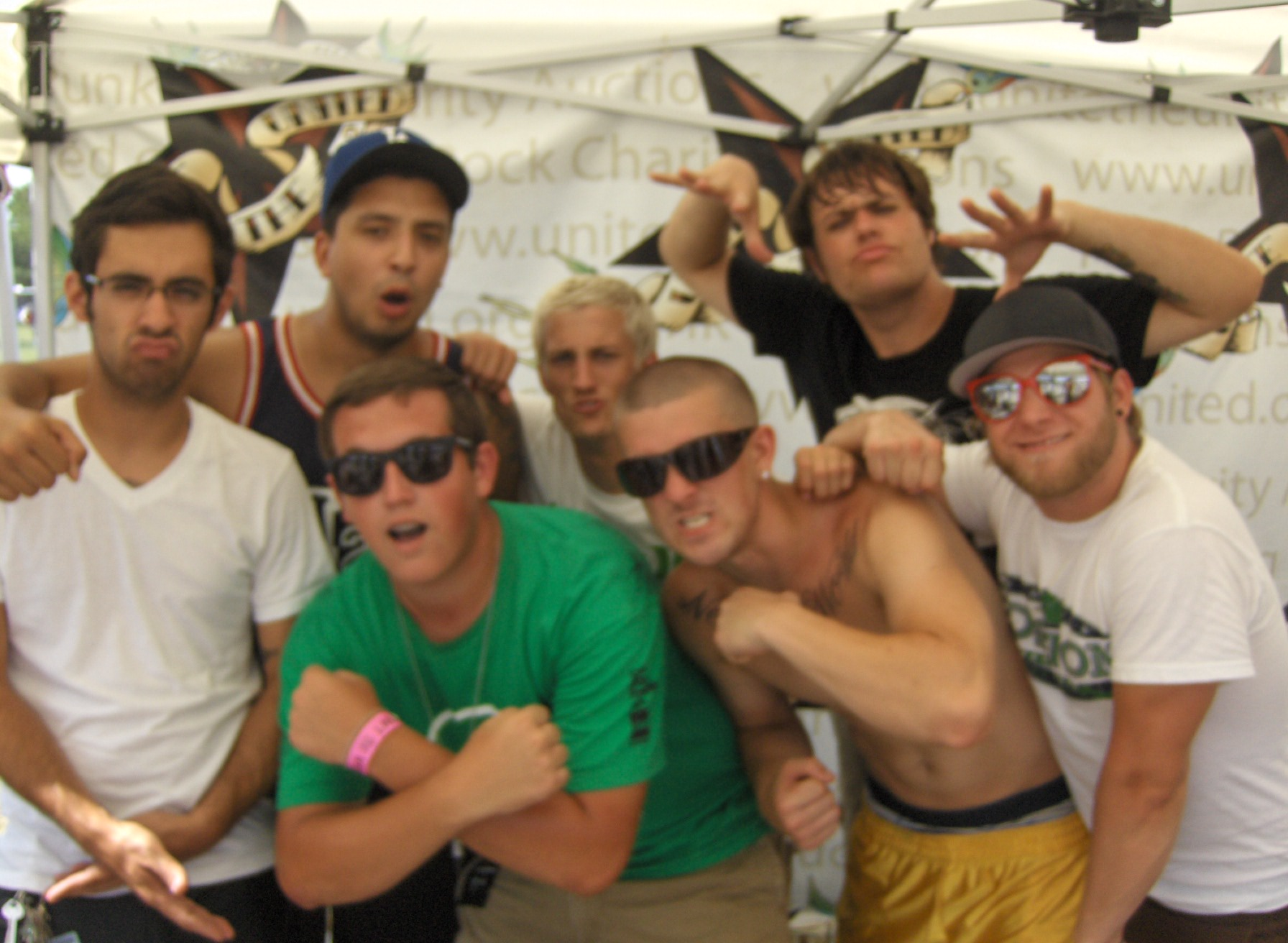 Tyler Hall (Green / Middle ) ,with Set Your Goals.